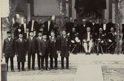 The Pulau Tudjuh Malay leaders with the Dutch Residen a week after the abdication of the sultan. 1911